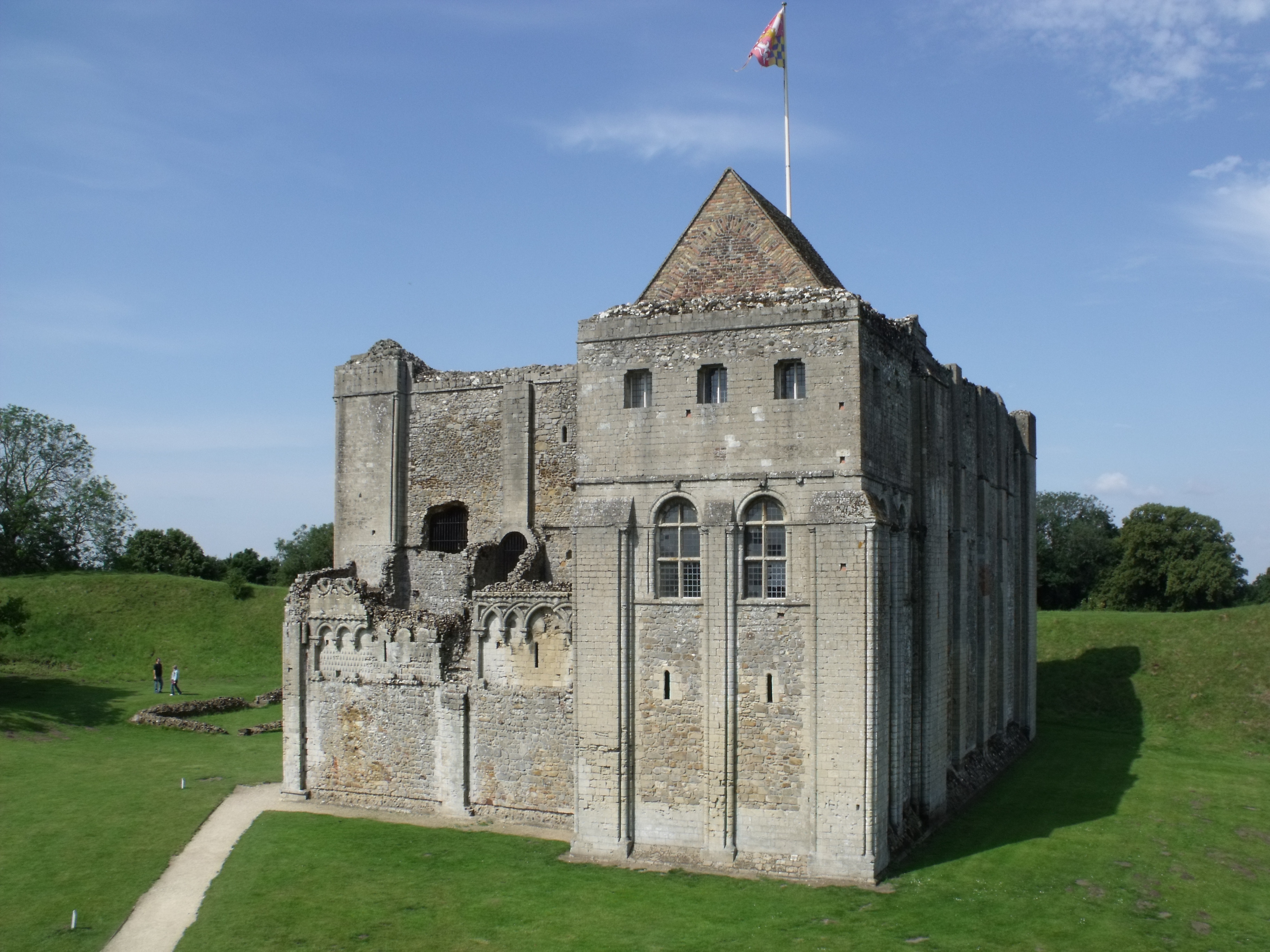 Castle Rising Castle, north-eastern aspect